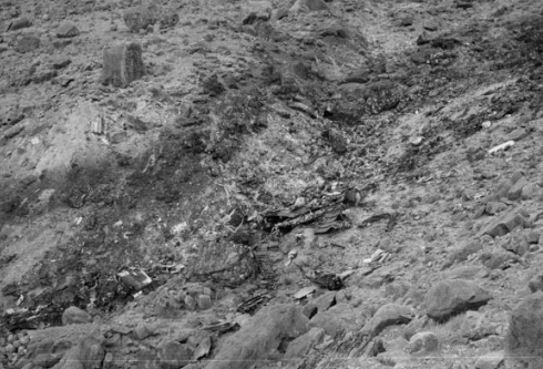 Photo of the 1956 Grand Canyon Crash Site National Historic Landmark